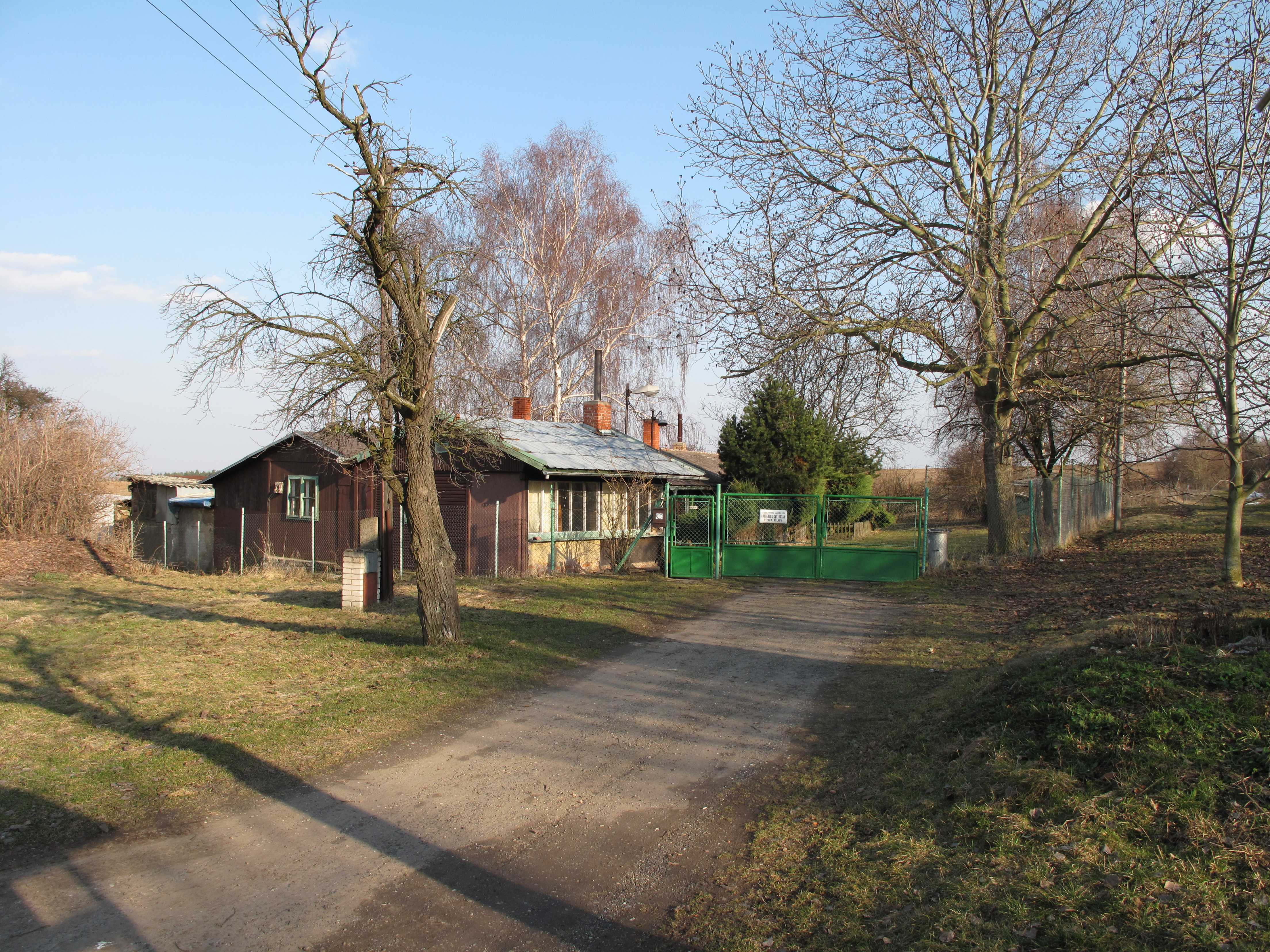 The Department of Archeology of the Academy of Sciences of the Czech Republic, founded on the edge of the village Bylany (Miskovice municipallity) to the in situ investigations of primeval settlements in the neigberhoods. Kutná Hora District, Czech Republic. This photograph was taken within the scope of the 'Czech Municipalities Photographs' grant.